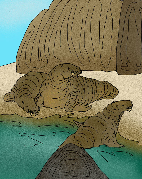 Reconstruction of the Californian fish-eating walrus Pliopedia pacifica, of the late Miocene (C) Stanton F. Fink